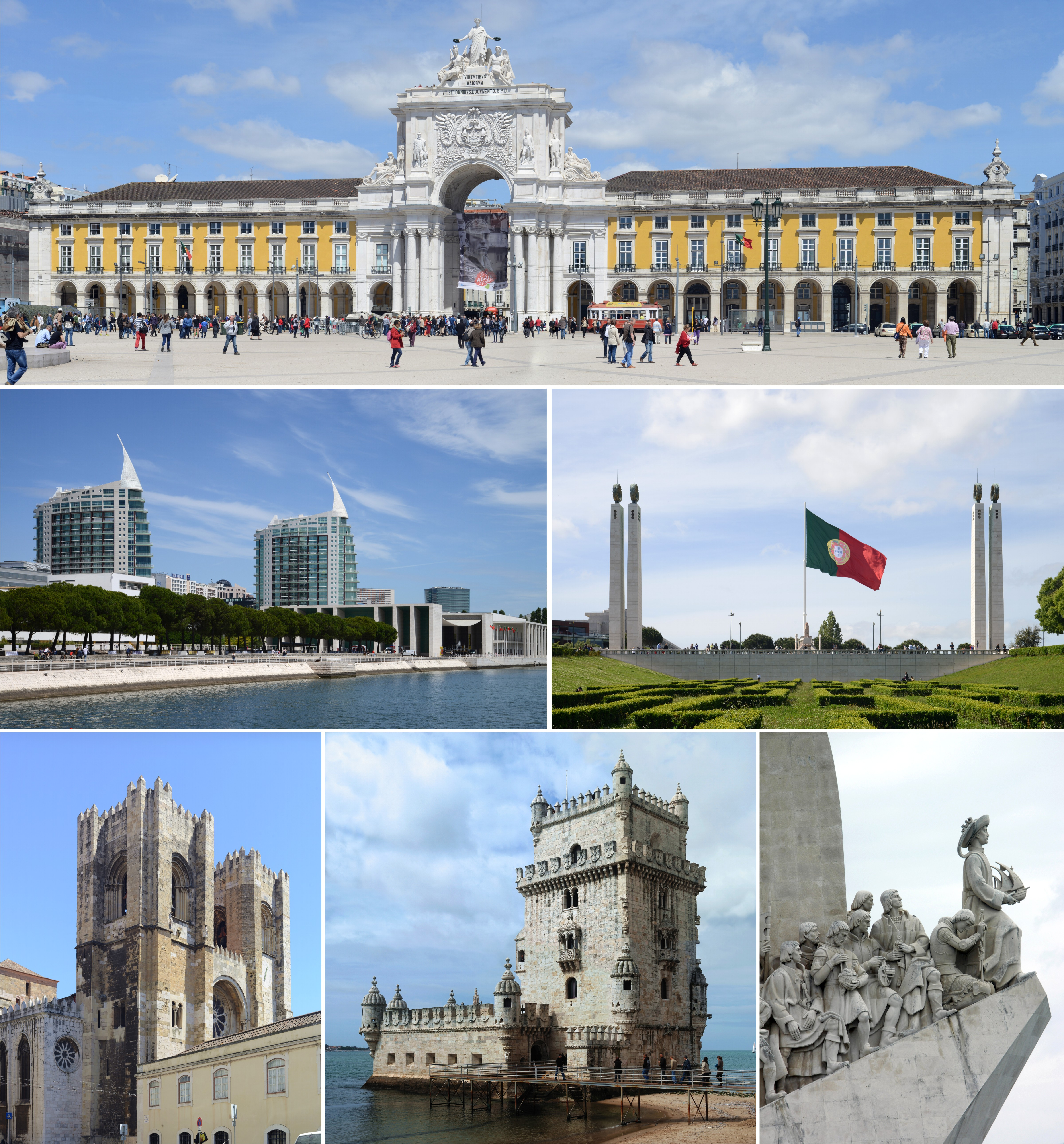 Montage of photos of Lisbon, Portugal. From top to botton: Praça do Comércio, parque das Nações, Jardim Eduardo VII. Sé de Lisboa, Torre de Belém, Monumento aos Descobrimentos